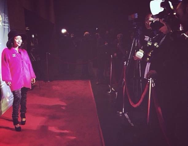 JaMiss at the Arpa Film Festival in Holllywood